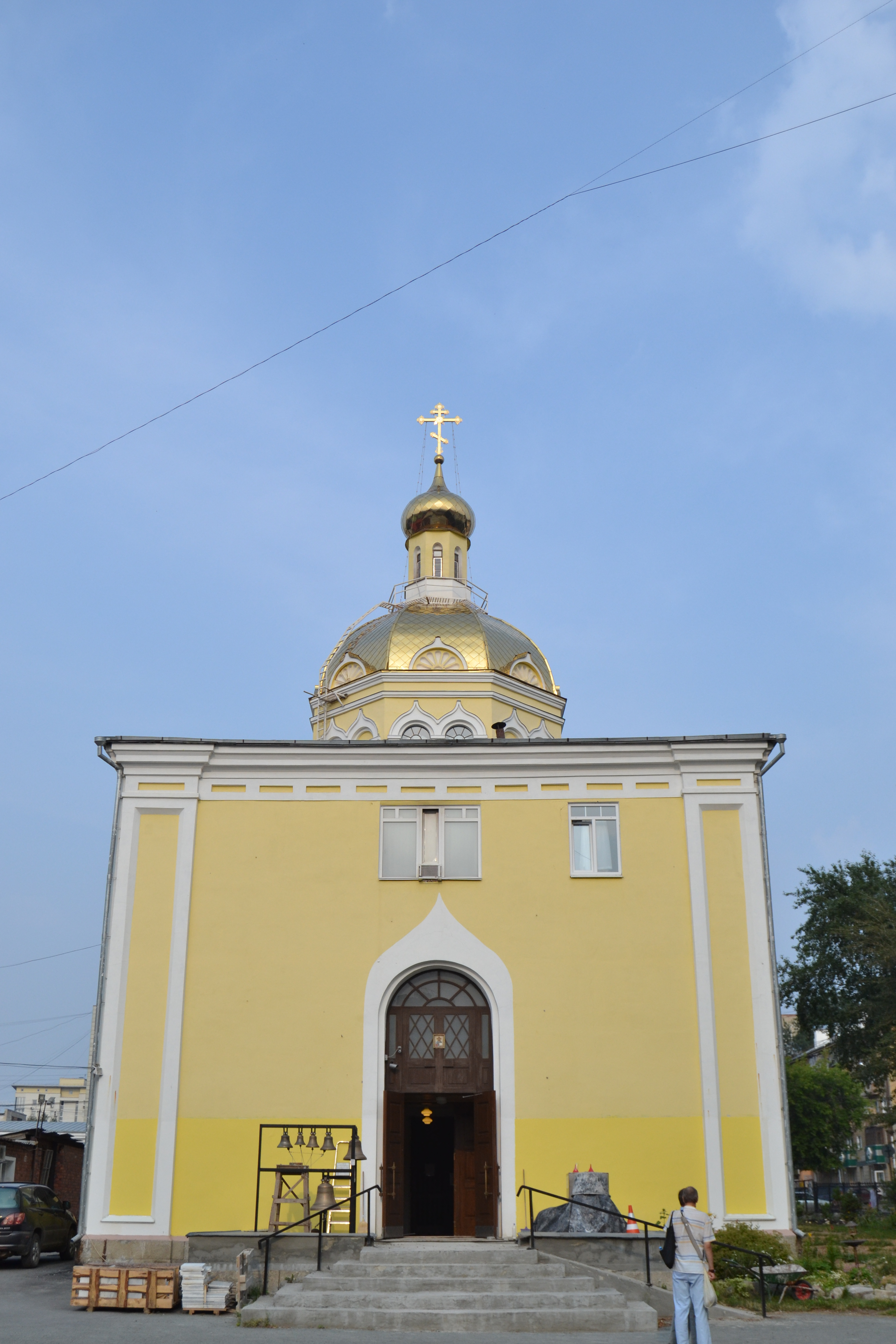 Holy Cross Church-Convent in Yekaterinburg